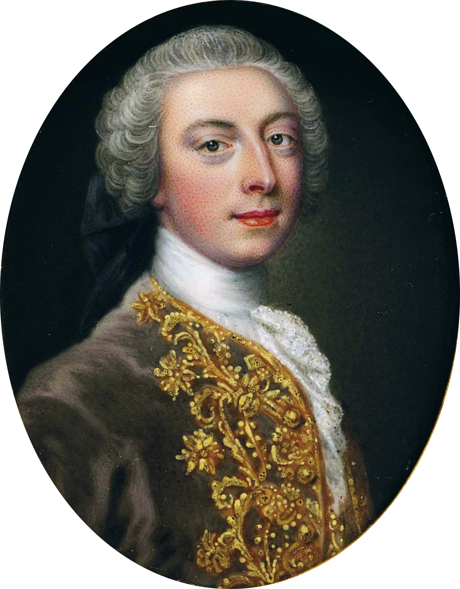 Danvers Osborn (1715-1753) enamel on copper 4.1 cm high